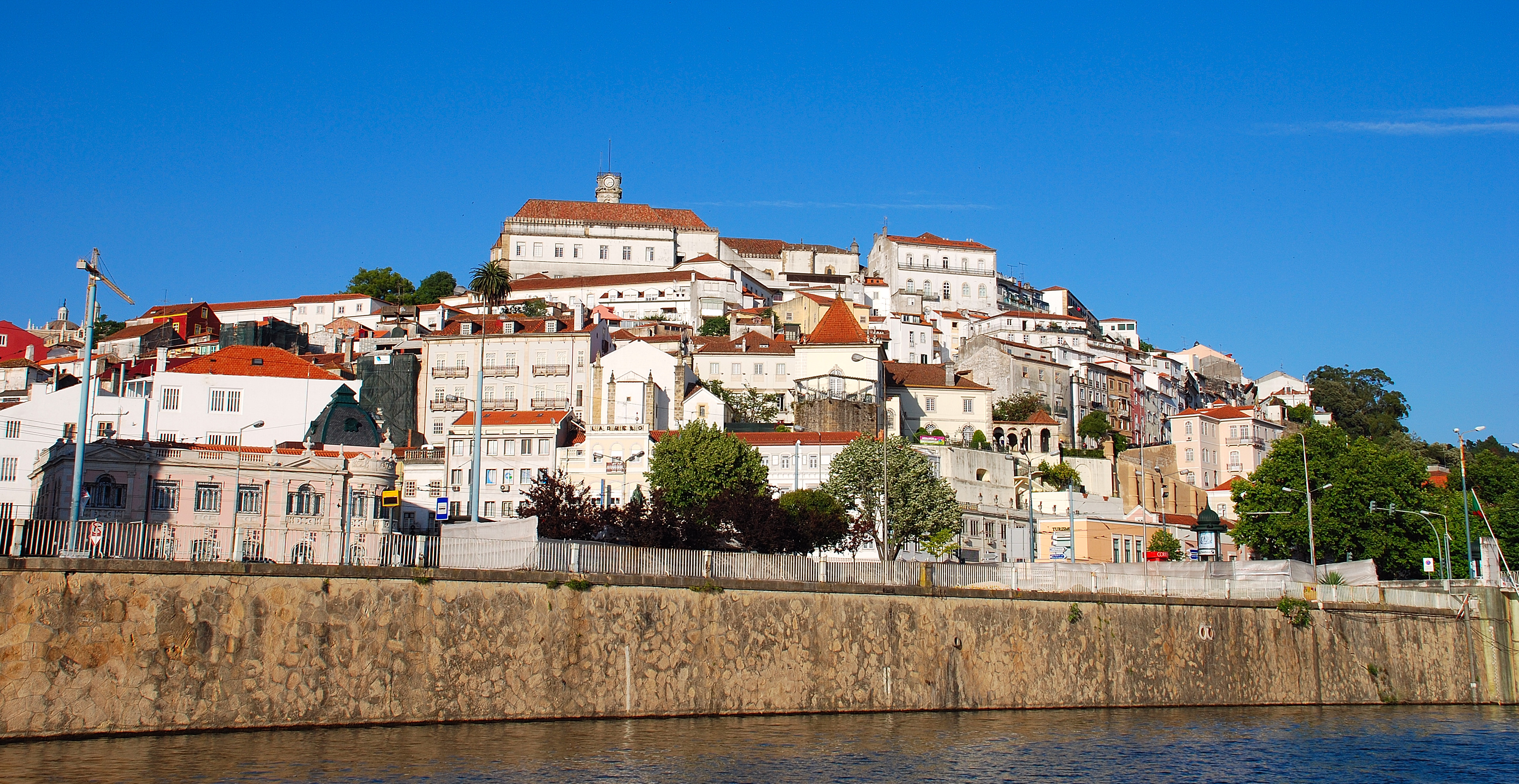 View of Coimbra, Portugal